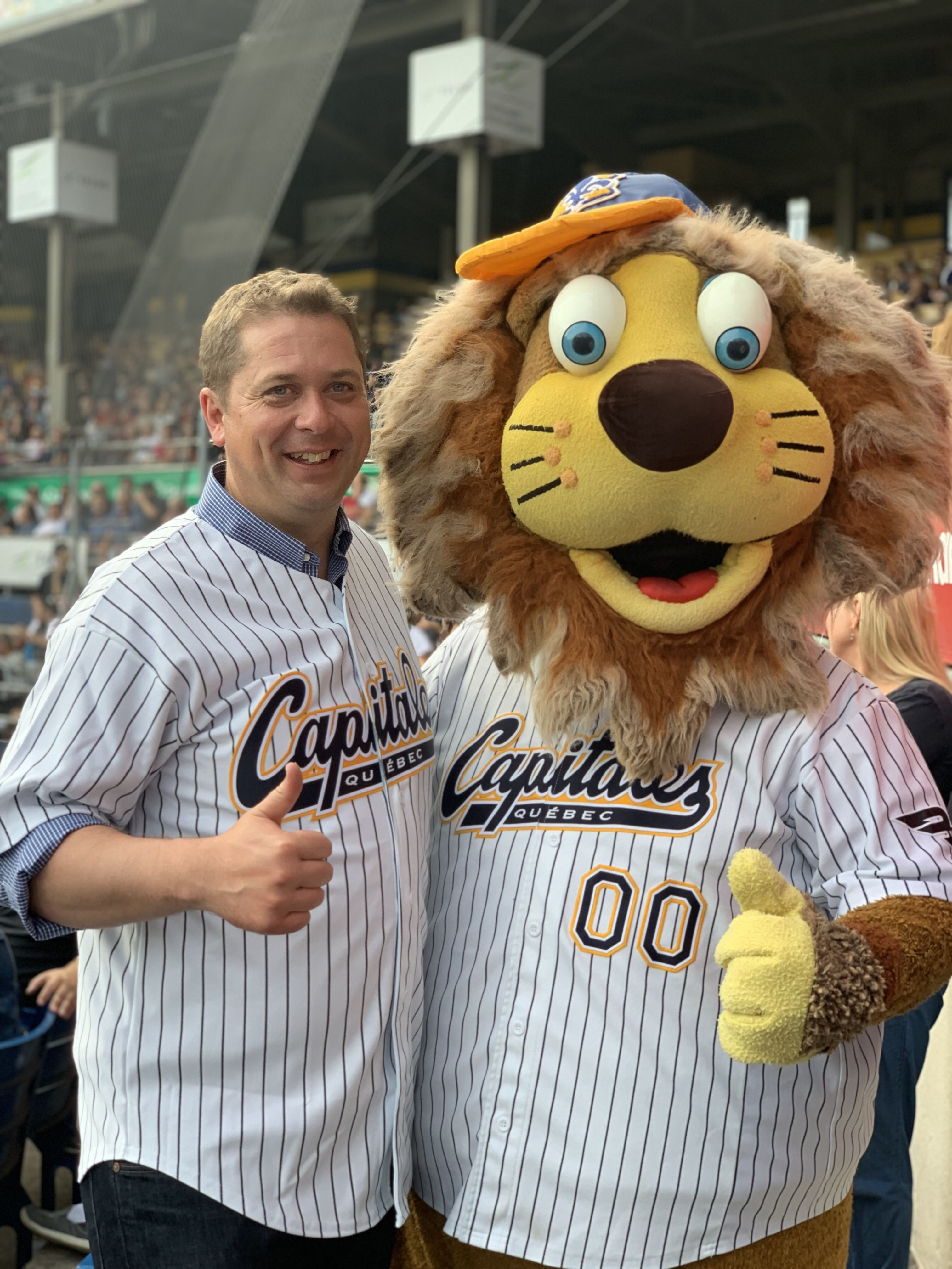 What an amazing game last night as the Capitales de Québec took on the Les Aigles de Trois-Rivières and dominated! My first Capitales game was one for the books. Thanks to everyone for the warm welcome, and support for our Conservative candidates Bianca Boutin, François Corriveau and Marie-Josée Guérette and our MP’s Pierre Paul-Hus, Steven Blaney, Joël Godin, Gérard Deltell, Alupa Clarke and Jacques Gourde.